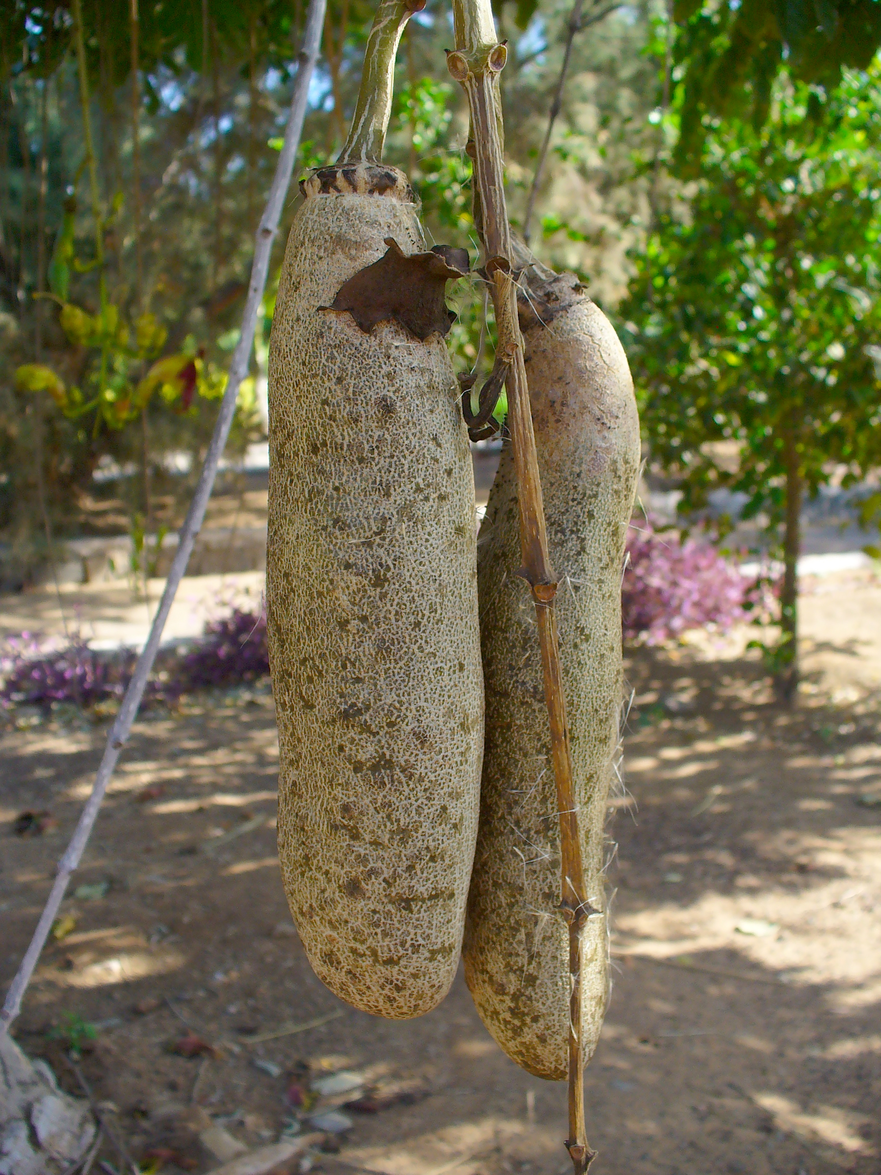 Sausage tree; Fruits; Botanical Garden Maspalomas, Gran Canaria, Canary Islands, Spain